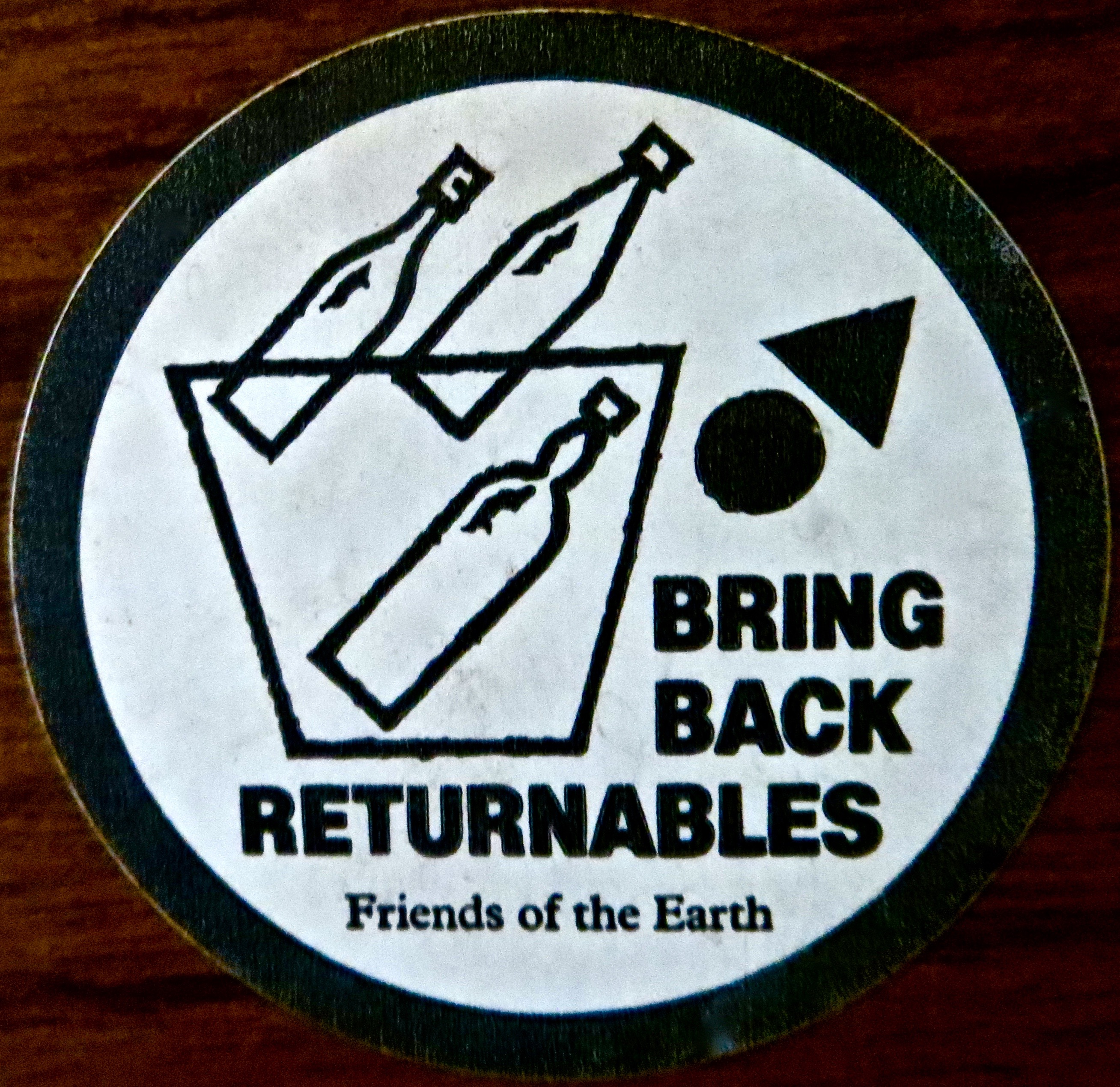 sheets of stickers were part of the Schweppes campaign